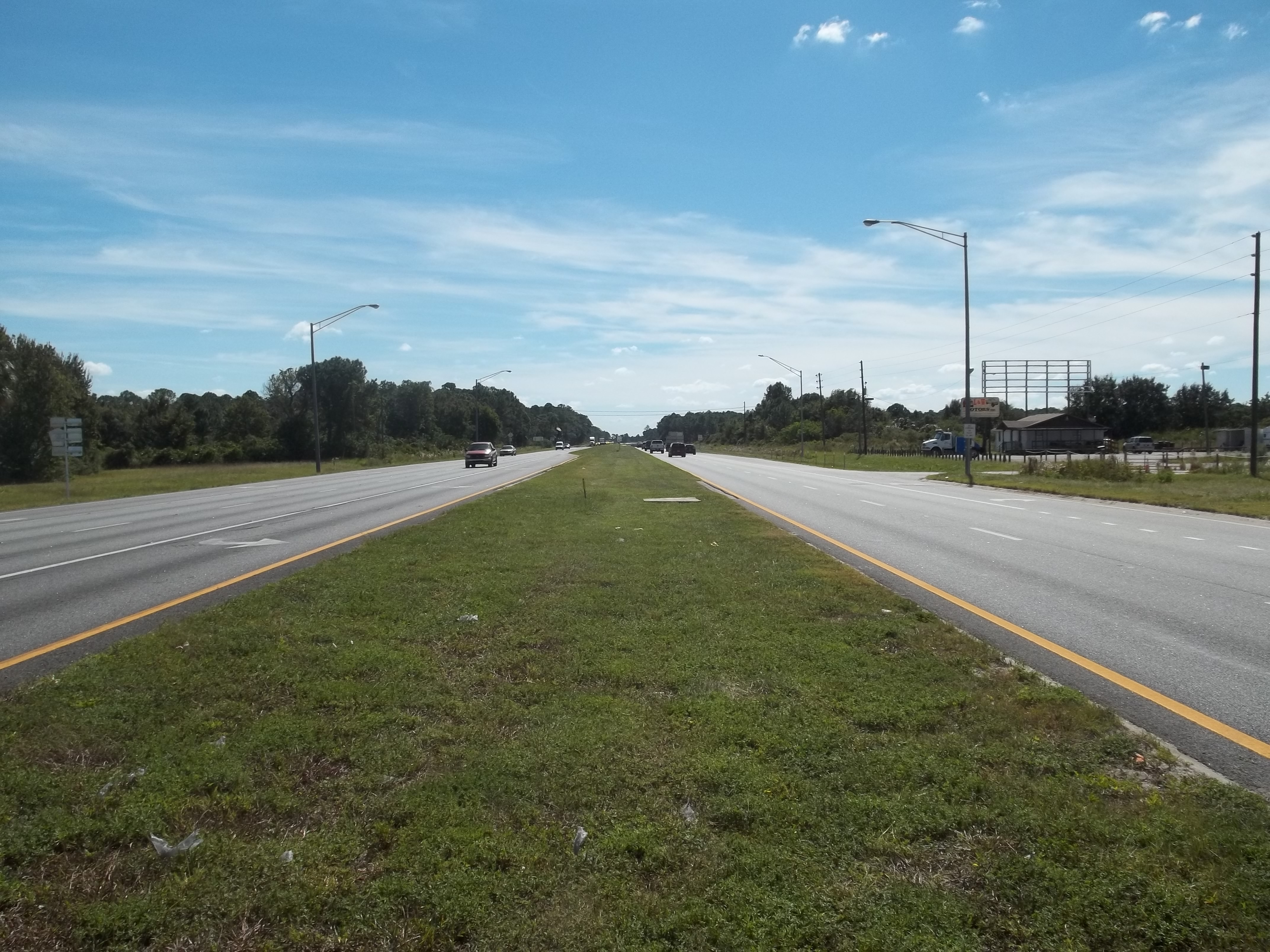 Frostproof, Florida: CR 630/US 27/US 98 intersection, looking south